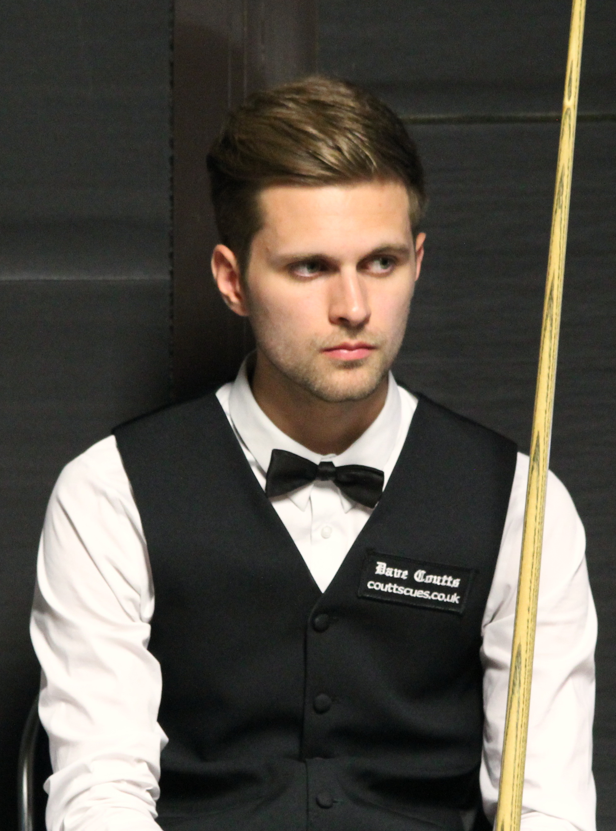 Steven Hallworth beim Paul Hunter Classic 2016